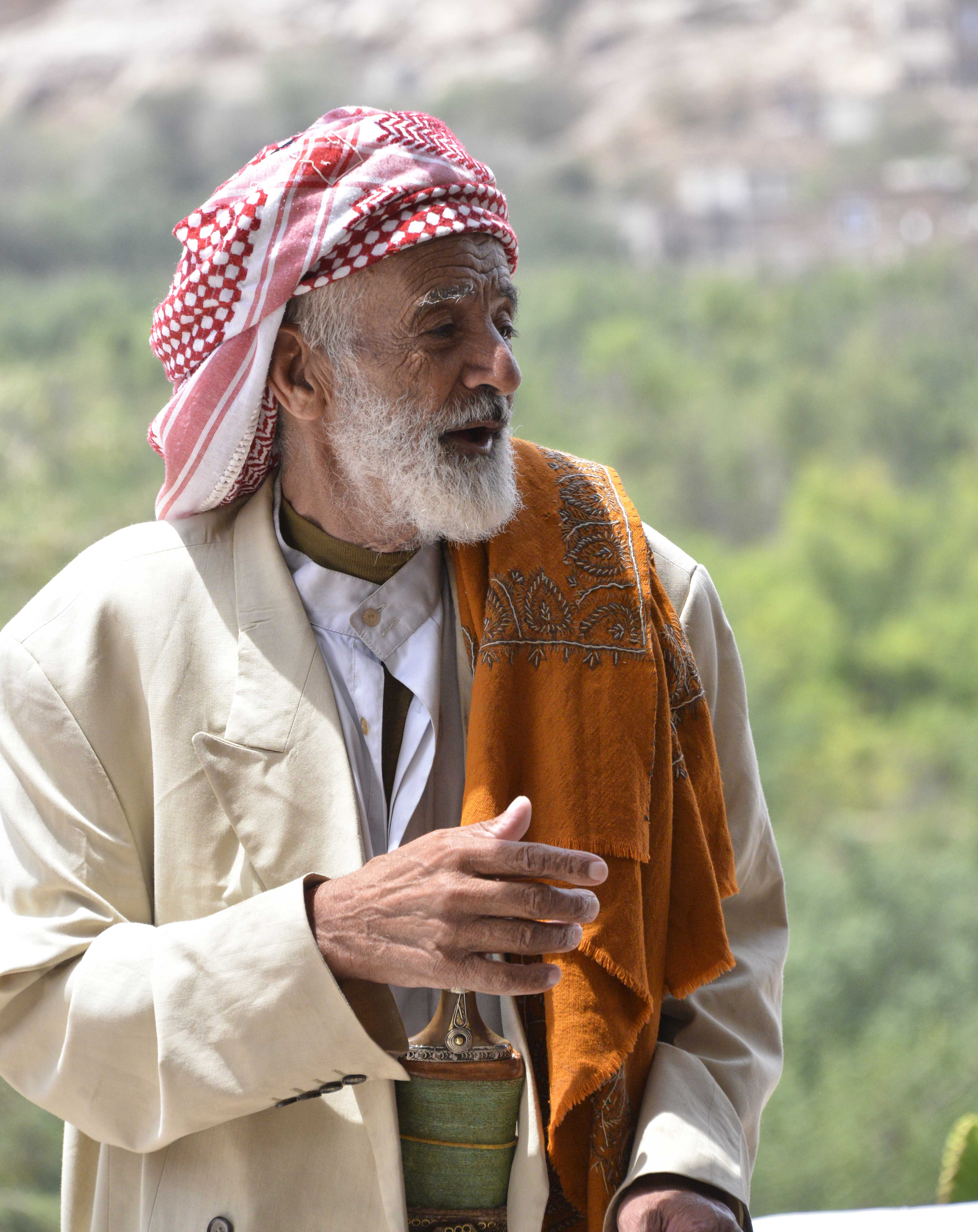 In Conversation, Yemen